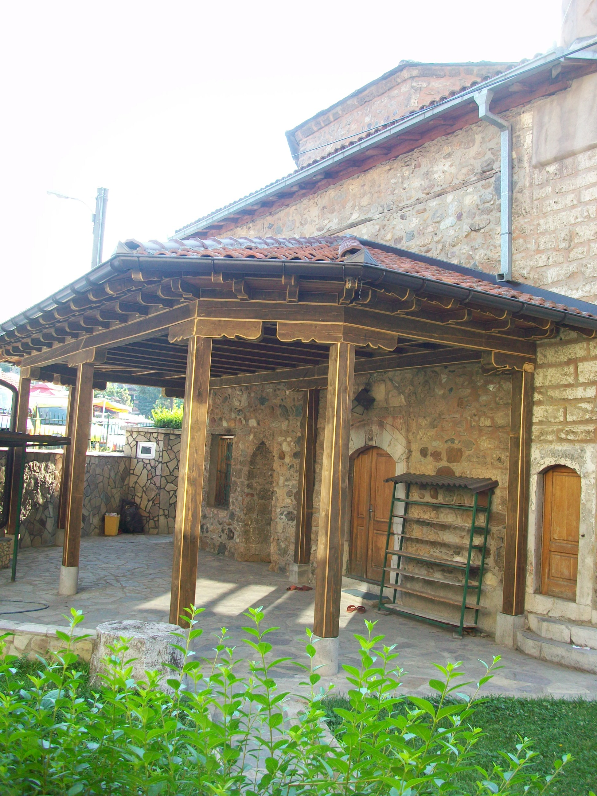 Pictures from Prizren Kosovo